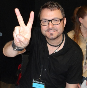 Voice actor Lee Tockar at 2012 Summer BronyCon Cropped from File:Lee tockar bronycon summer 2012.jpg